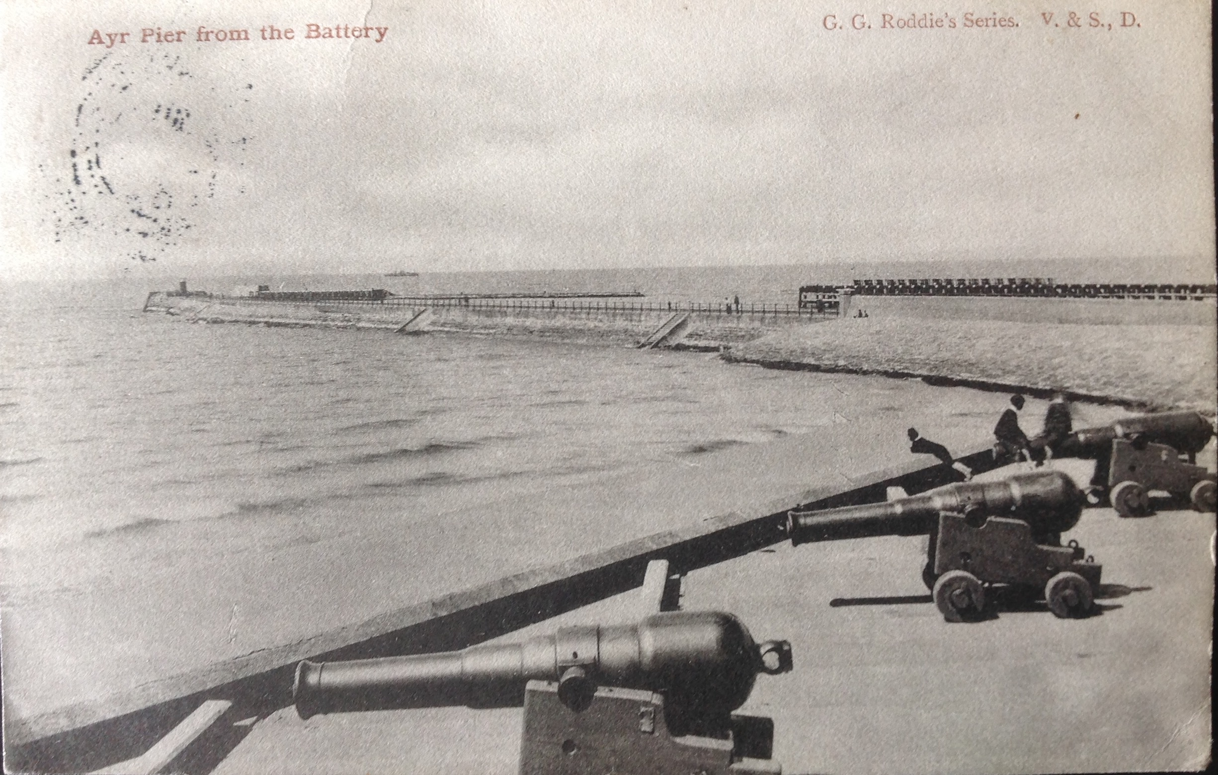 Practise battery of 64 Pounder Rifled Muzzle Loading guns near Ayr Pier. From old post card post marked 1907